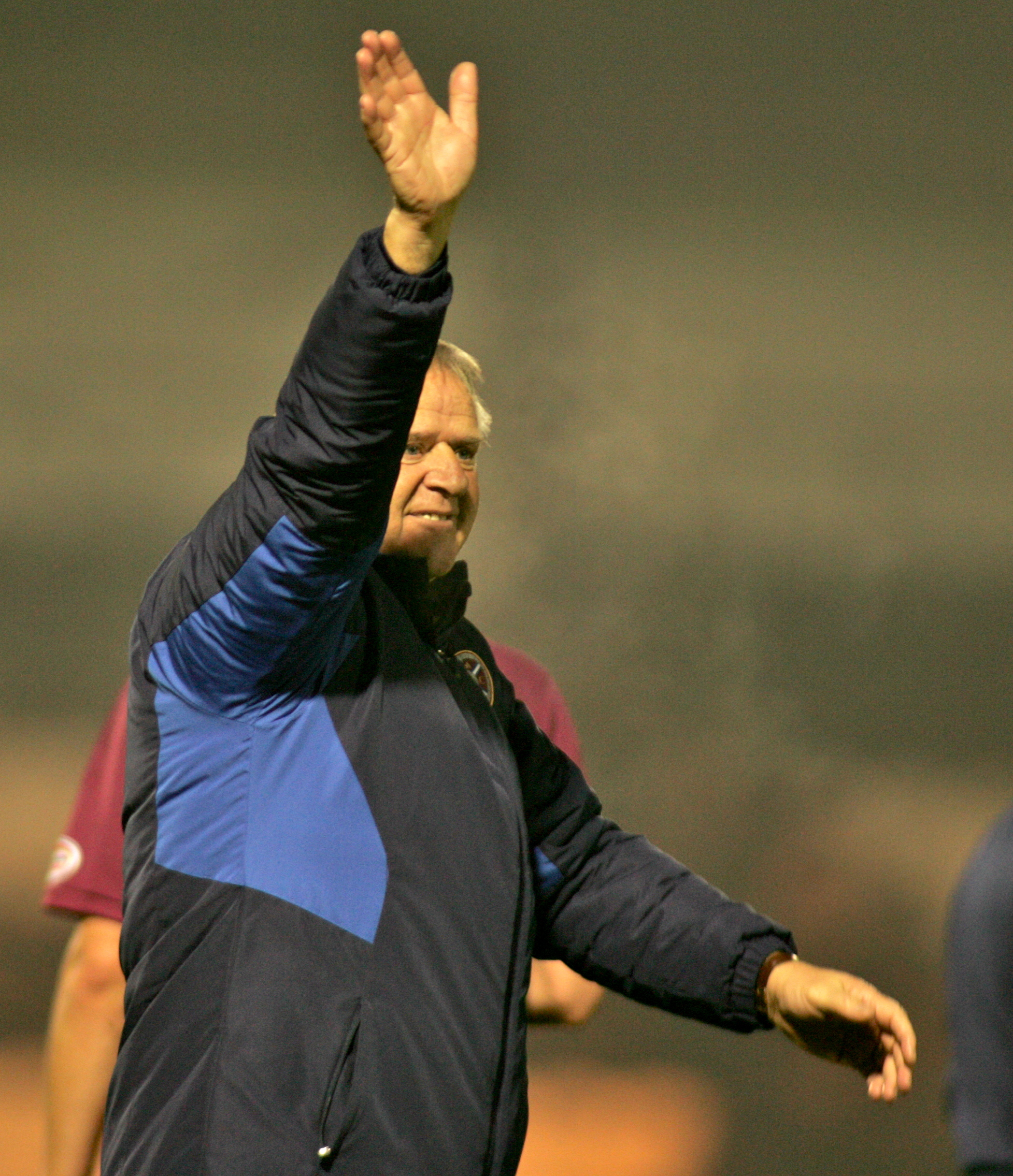 Jim Jefferies from St Mirren vs Hearts